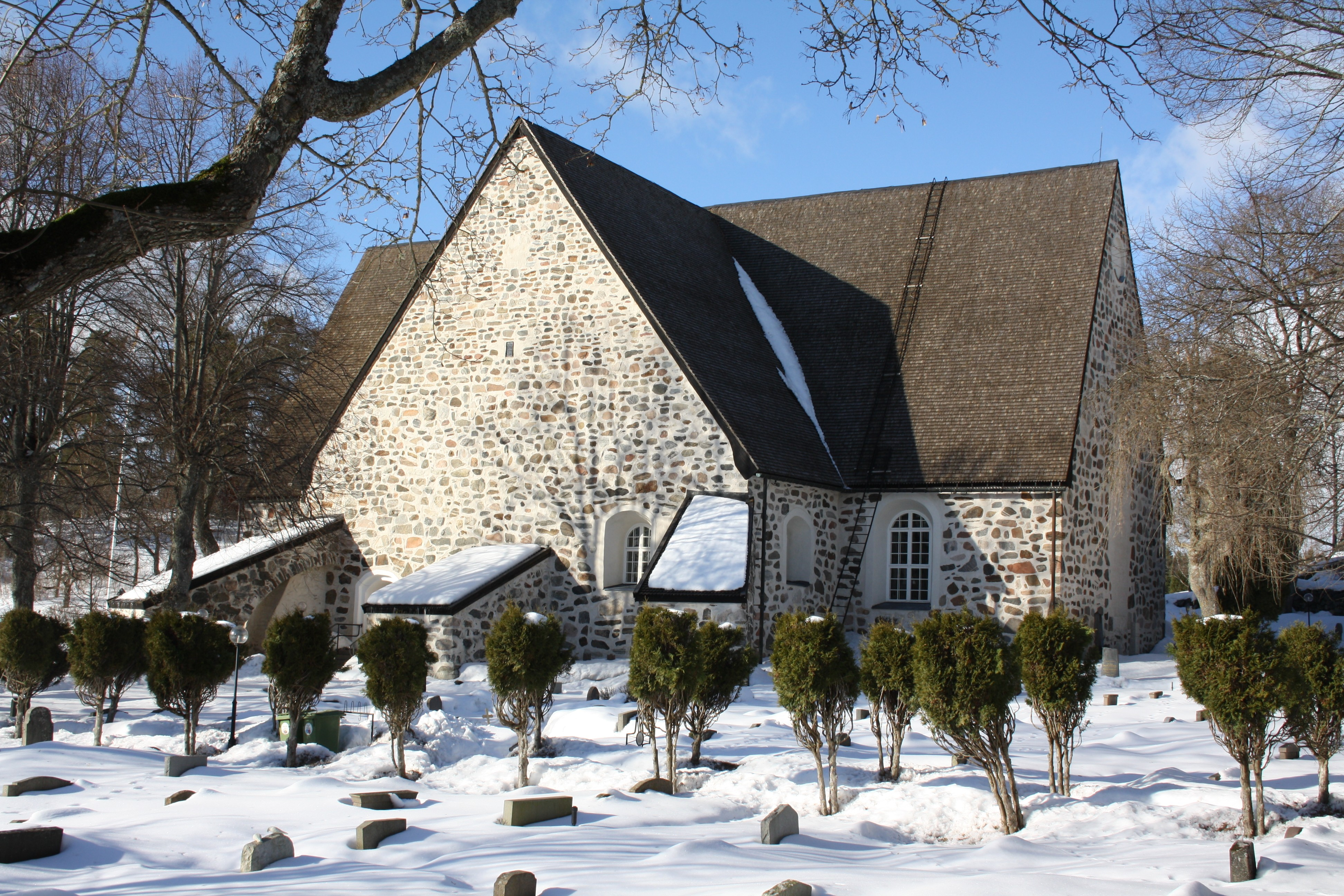 The church in Värmdö, east of Stockholm, Sweden